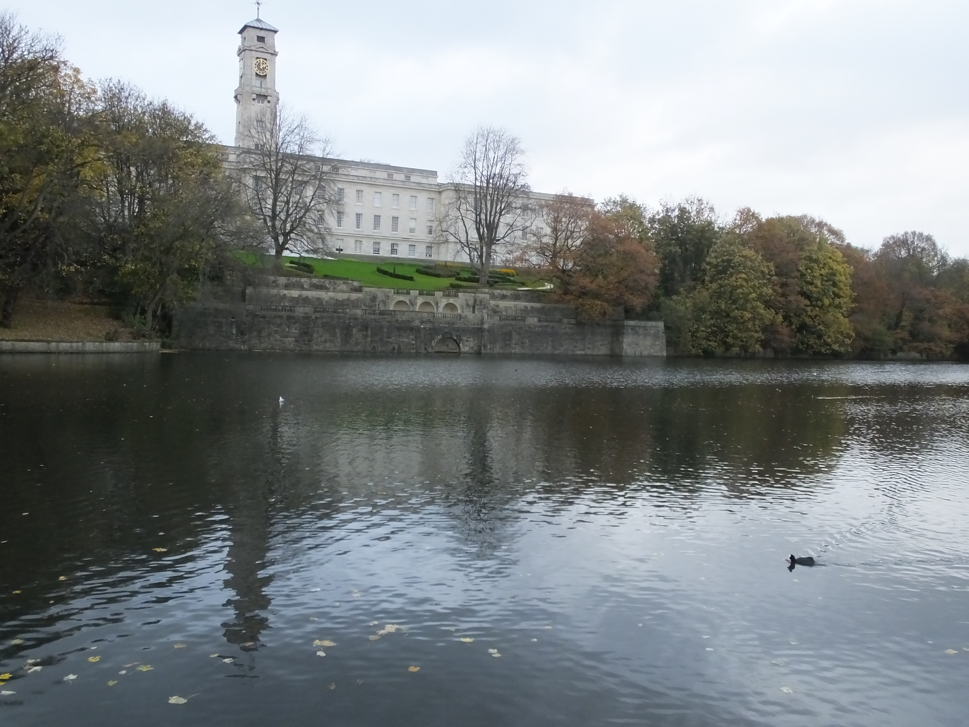 Highfields Park, Nottingham is Grade II listed Park providing 121 acres (49 ha) of public space, in the west of Nottingham, England. It is owned and maintained by Nottingham City Council. It located alongside University Boulevard, adjoining the University of Nottingham's University Park campus